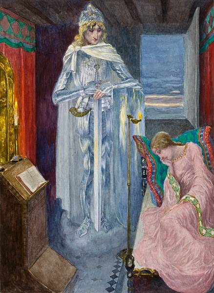 illustration for Richard Wagner's Lohengrin, likely from an unpublished work on Wagner's operas or a calendar.